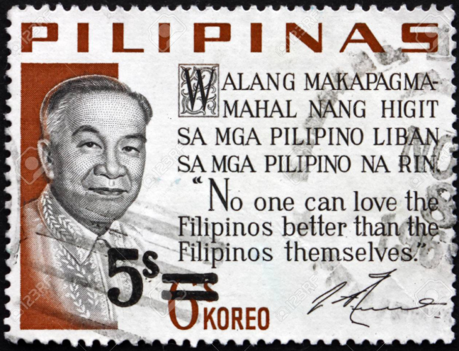 President Laurel under the japanese occupation was commemmorated by the PHL POST